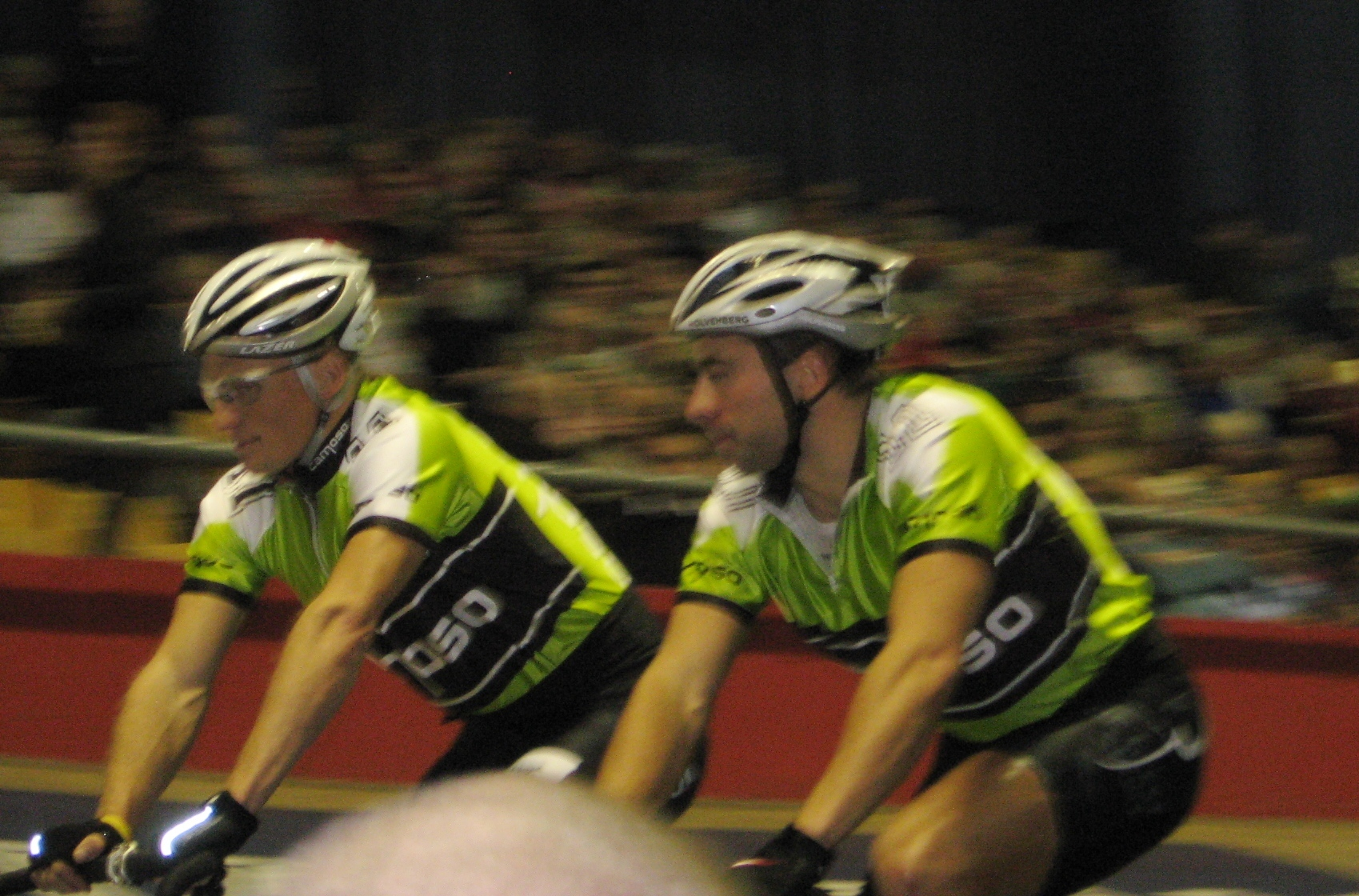 Steven Deneef(l) and Dimitri De Fauw(r) in action during the Six Days of Flanders-Ghent (2008)